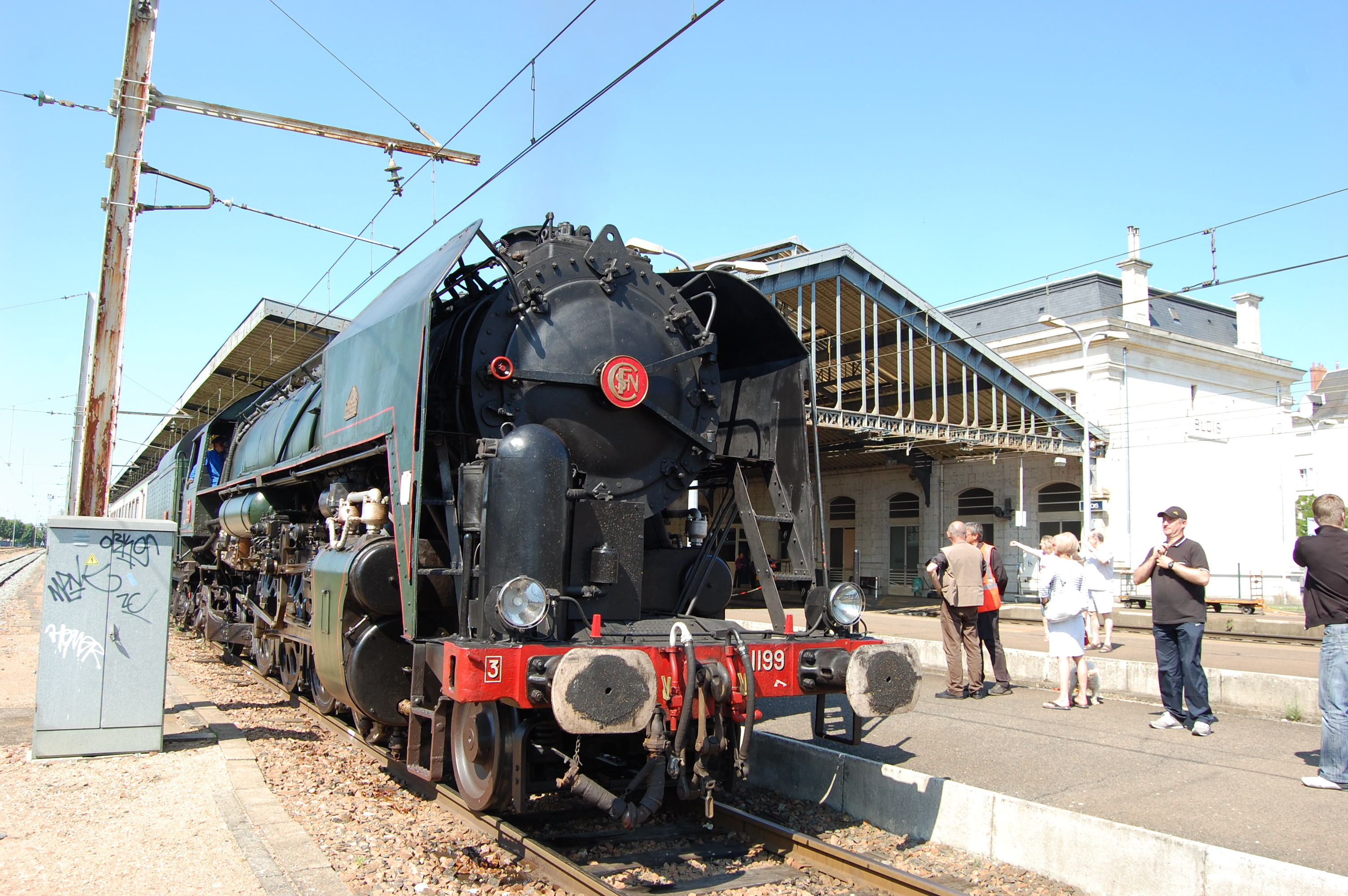 The SNCF Class 141R number 1199 from Nantes, in Blois station